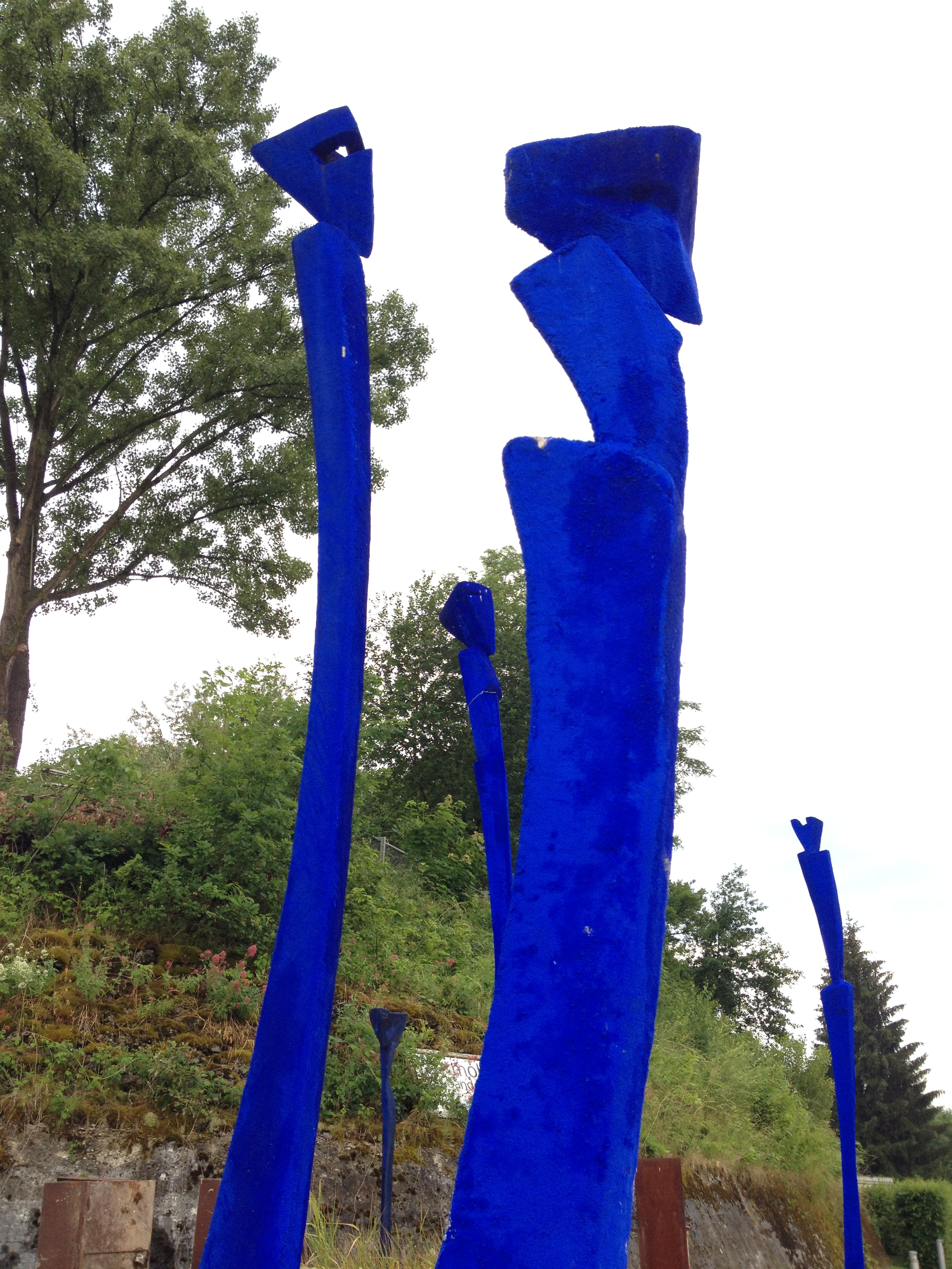 Sculptures in yard